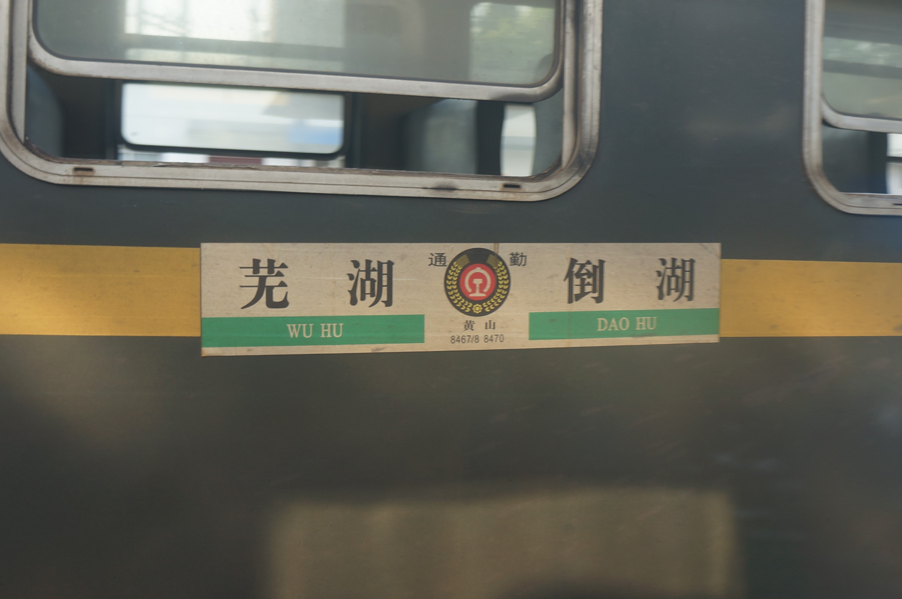 8467 8468 8470 infoboard in 201806